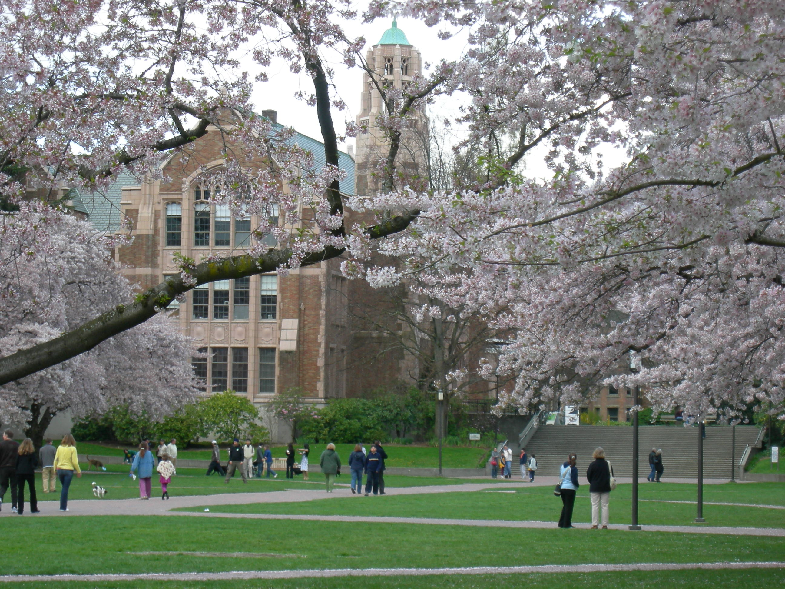 Cherry blossom time in the Quad, University of Washington, Seattle, Washington.